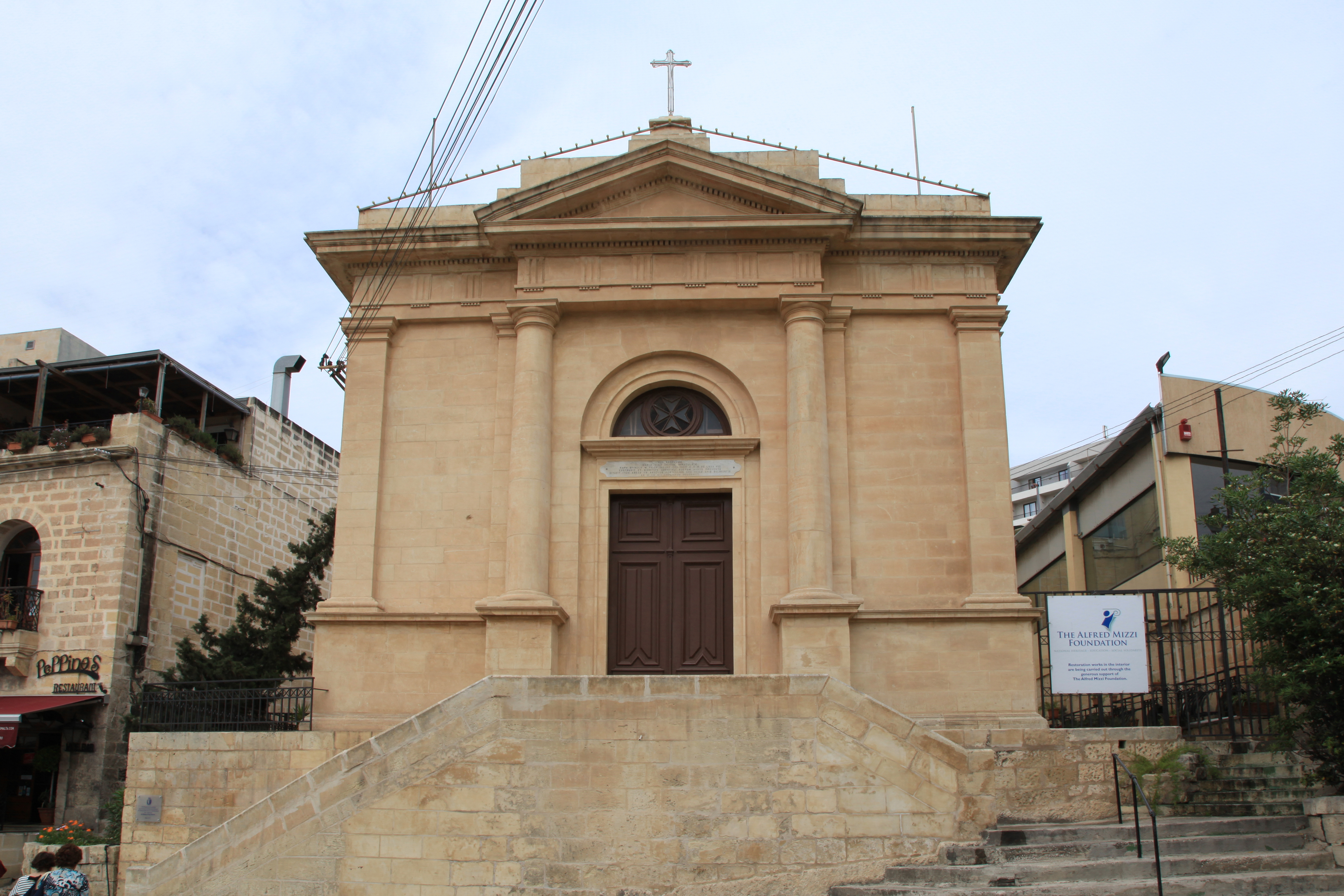 Knisja tal-Kuncizzjoni at Triq San Ġorġ in St. Julian's, Malta